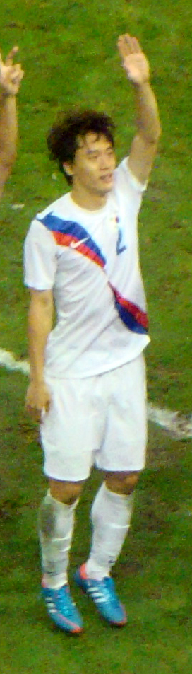 04/08/12 Great Britain v South Korea, Olympic Football, Millennium Stadium, Cardiff, Wales